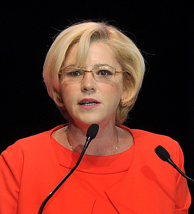 Corina Cretu is the EU commissioner of humanitarian aid in the Juncker Commission